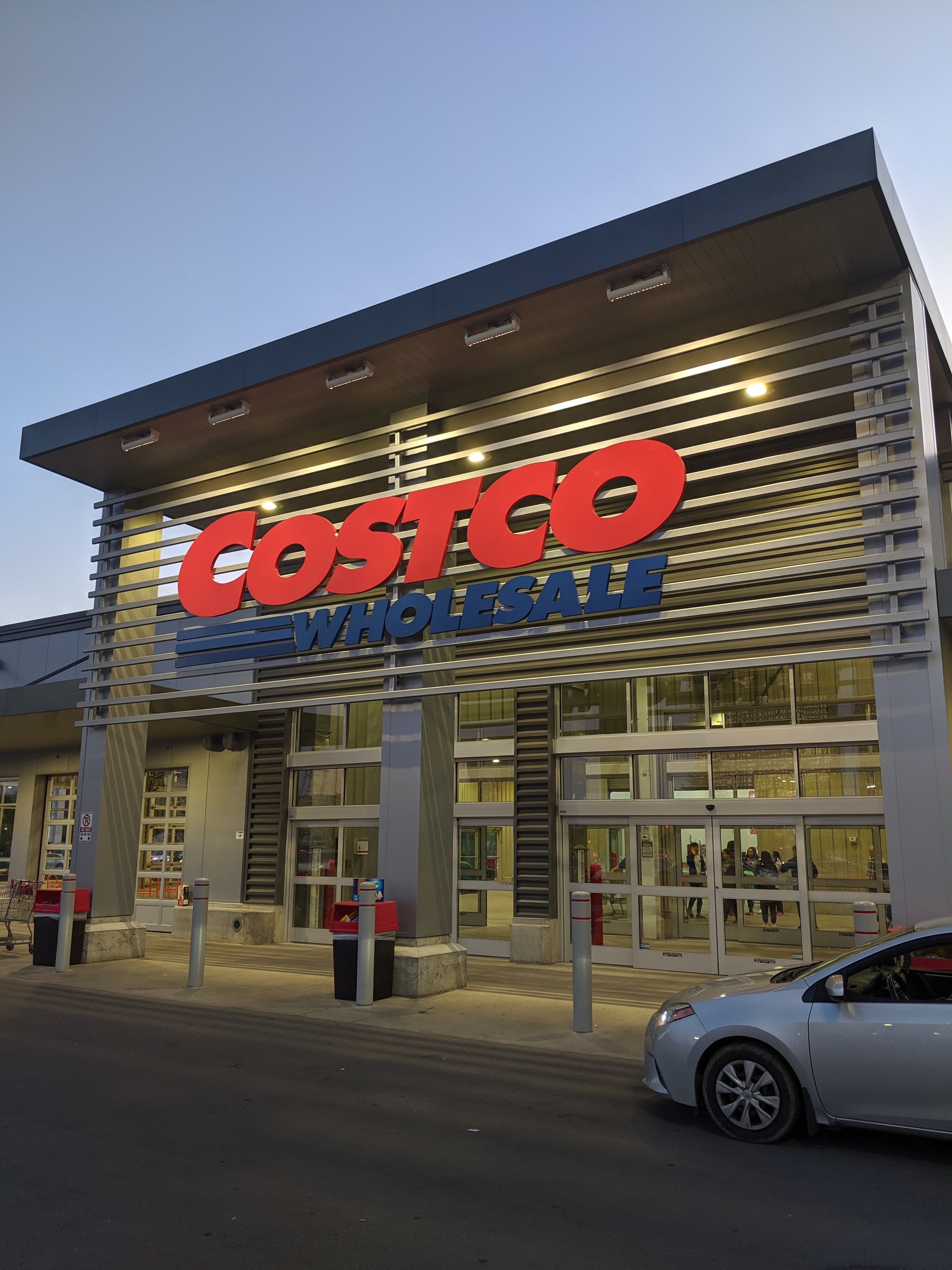 Costco warehouse in Thorncliffe Park